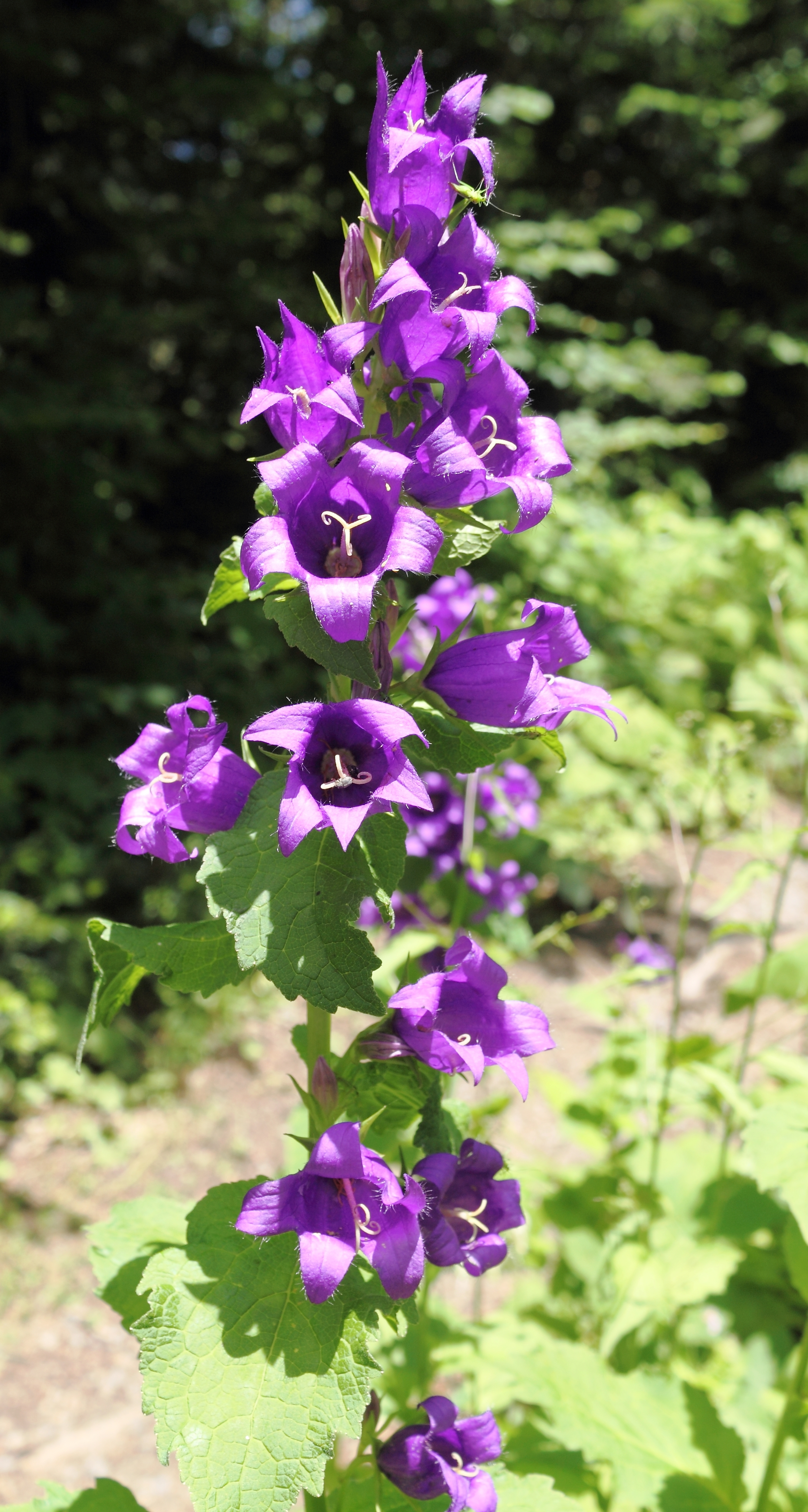 Campanula trachelium or nettle-leaved bellflower is a species of bellflower. Wild-growing plant. The picture taken on border of the Caucasian State Biosphere Nature Reserve and the Sochi national park in vicinities of Krasnaya Polyana in the territory of Adlersky District of Sochi. Krasnodar Krai, Russian Federation. This image is related to the protected area of Russia number 2300430